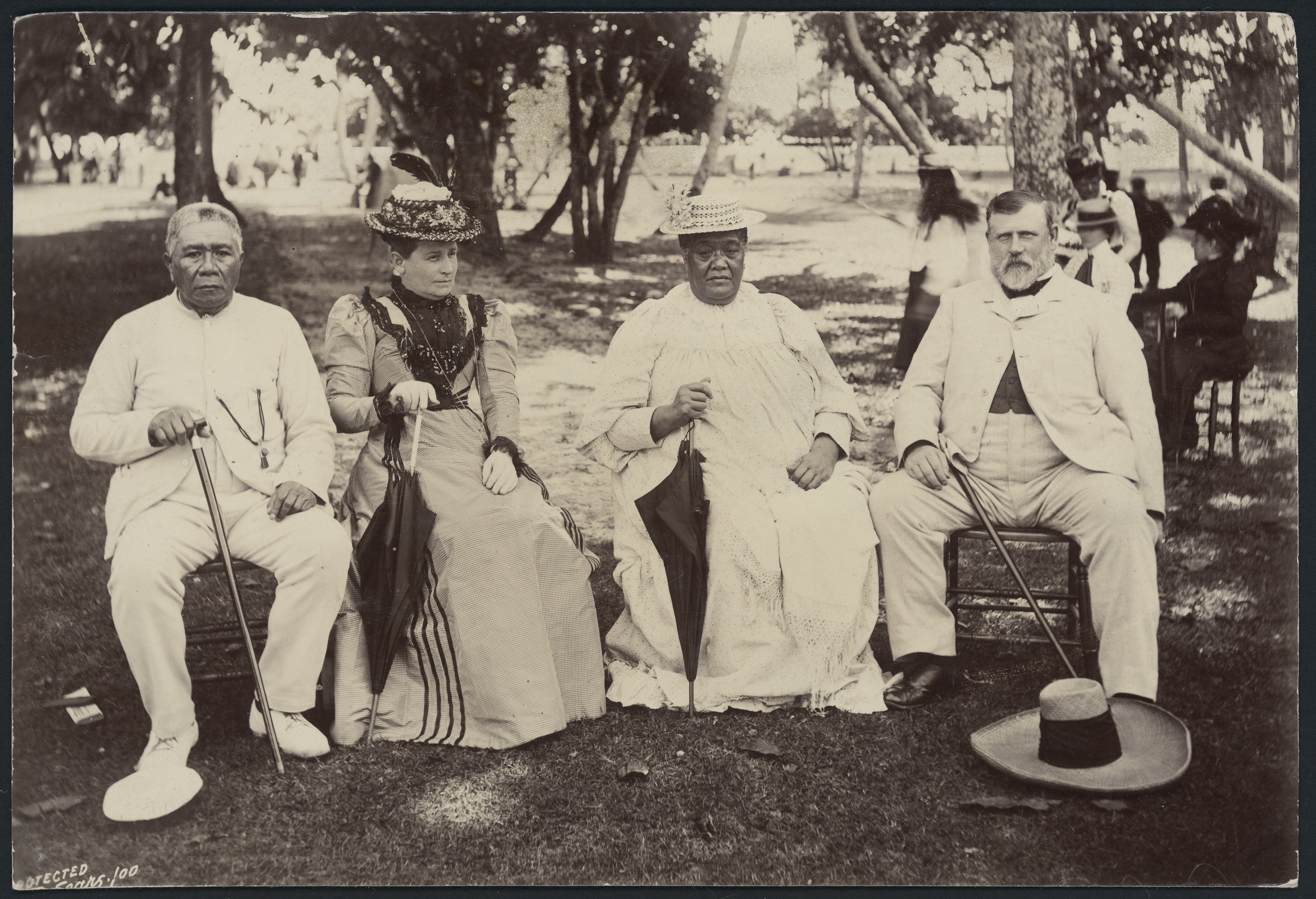 Ngamaru Rongitini Ariki (Atiu), Mrs Seddon, Makea Takau Ariki (Te Au O Tonga – Rarotonga) and Mr Richard Seddon (Prime Minister of New Zealand) at Taputapuatea ground (in front of Makea Palace)